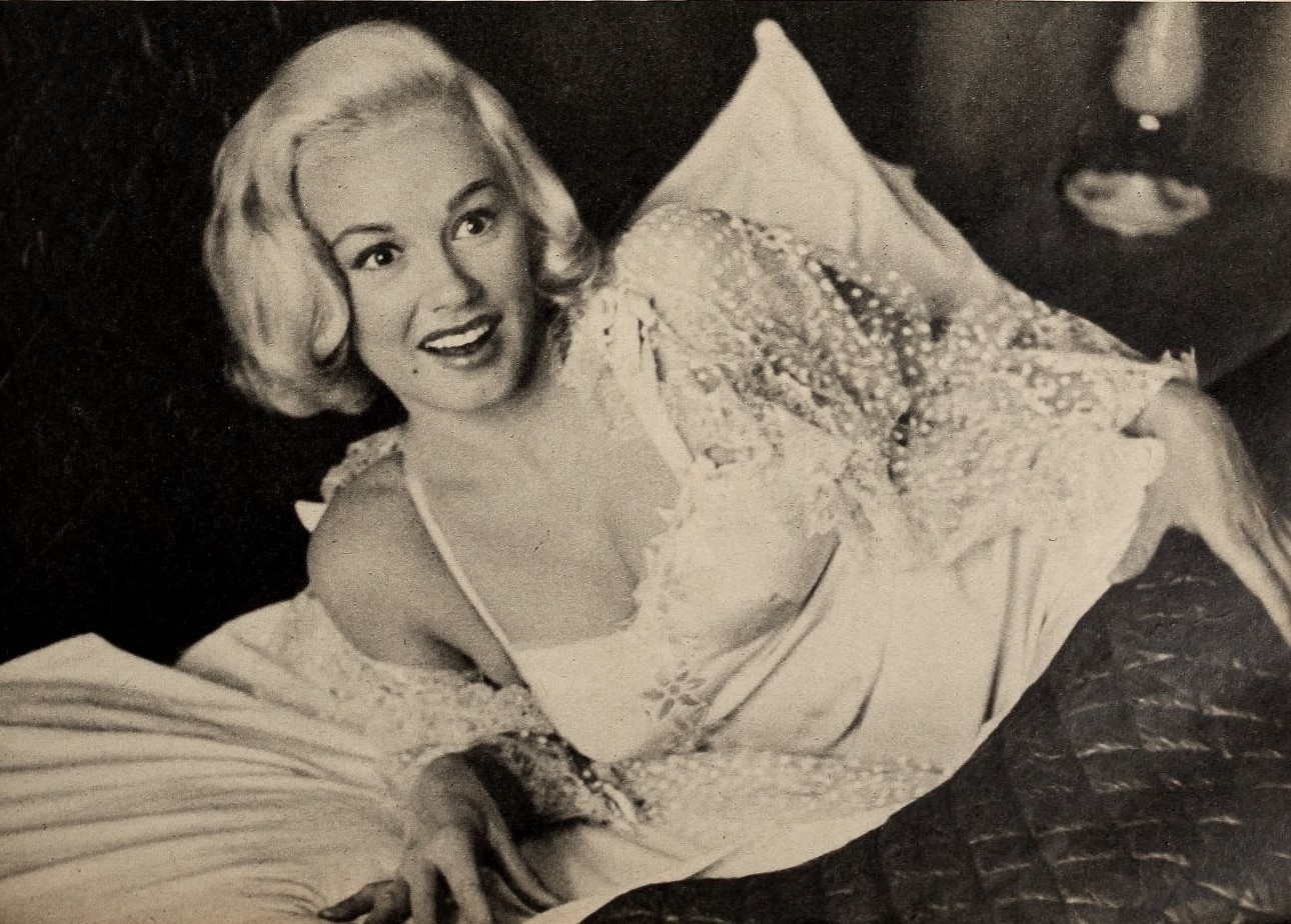 Mamie Van Doren, 1954